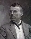 Eduard "Ede" Telcs was a Hungarian sculptor (1872 – 1948)